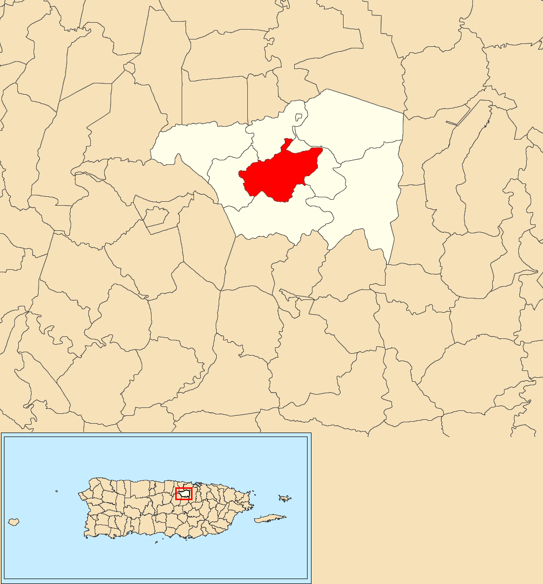 Galateo, Toa Alta, Puerto Rico locator map